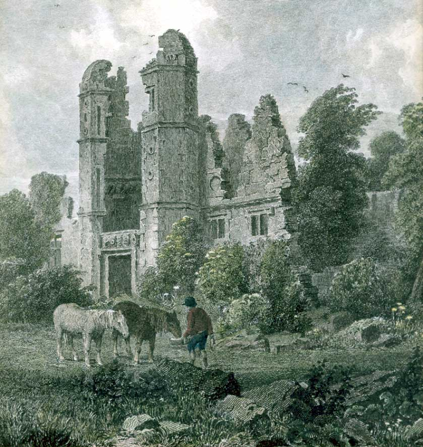 Engraving of the ruins of Rocksavage, c. 1818, after Peter De Wint. Published in Ormerod's The History of the County Palatine and City of Chester (1816–19)